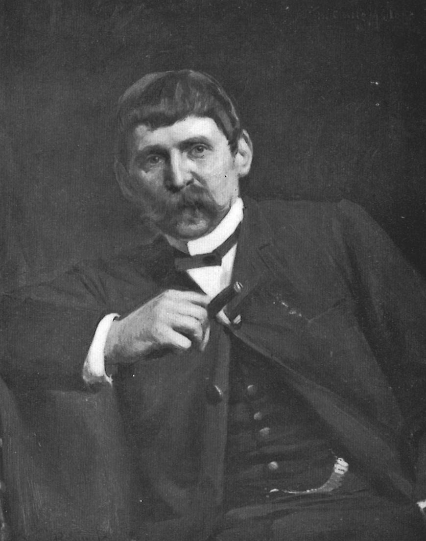 Carl Möller (1857-1933), Swedish architect. Painting by Oscar Björck 1892.